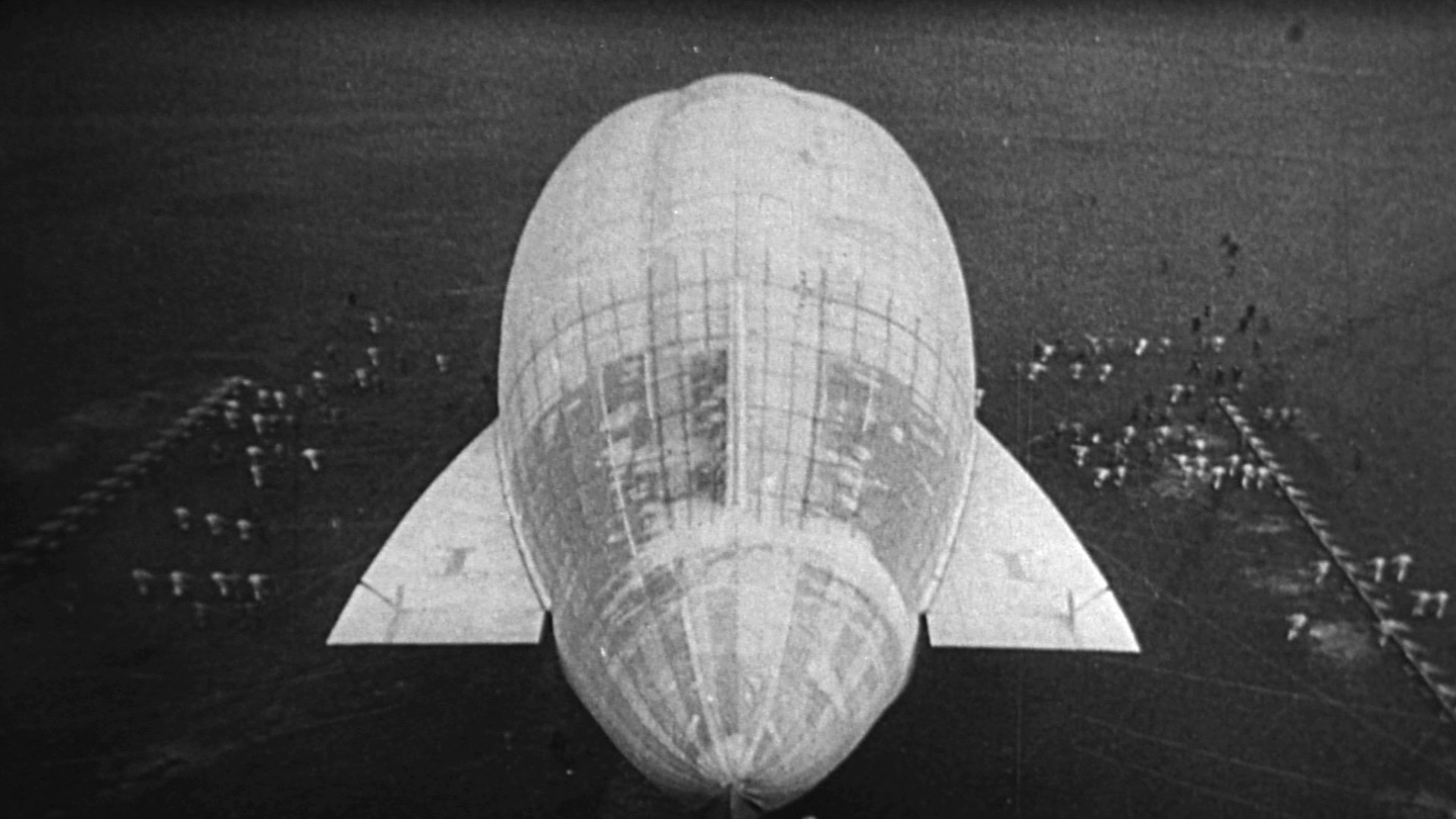 Picture of the Airship Norge